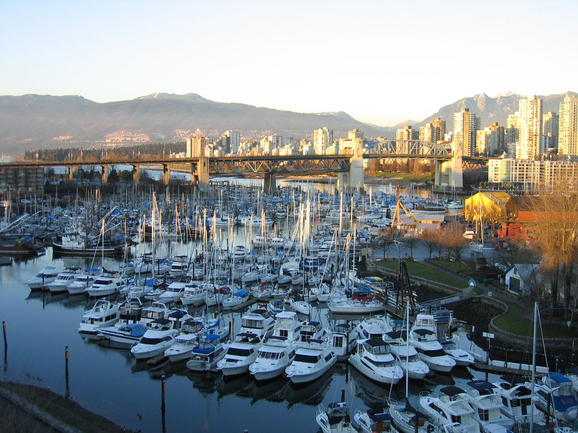 False Creek2: A view of False Creek and all of its boats from the Granville St. Bridge.